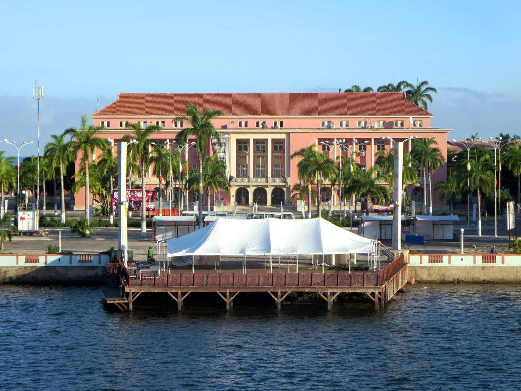 The town hall (Câmara Municipal) of Lobito, Angola, is on the Restinga Peninsula between the port and the upscale Terminus Hotel.